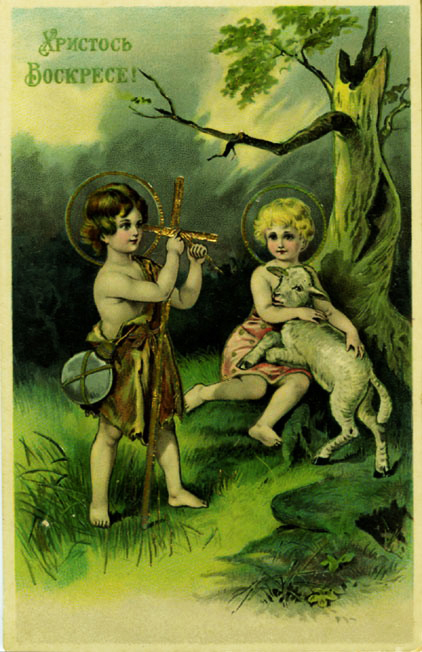 Christ is Risen! A nice Russian pre-1917 Easter postcard.